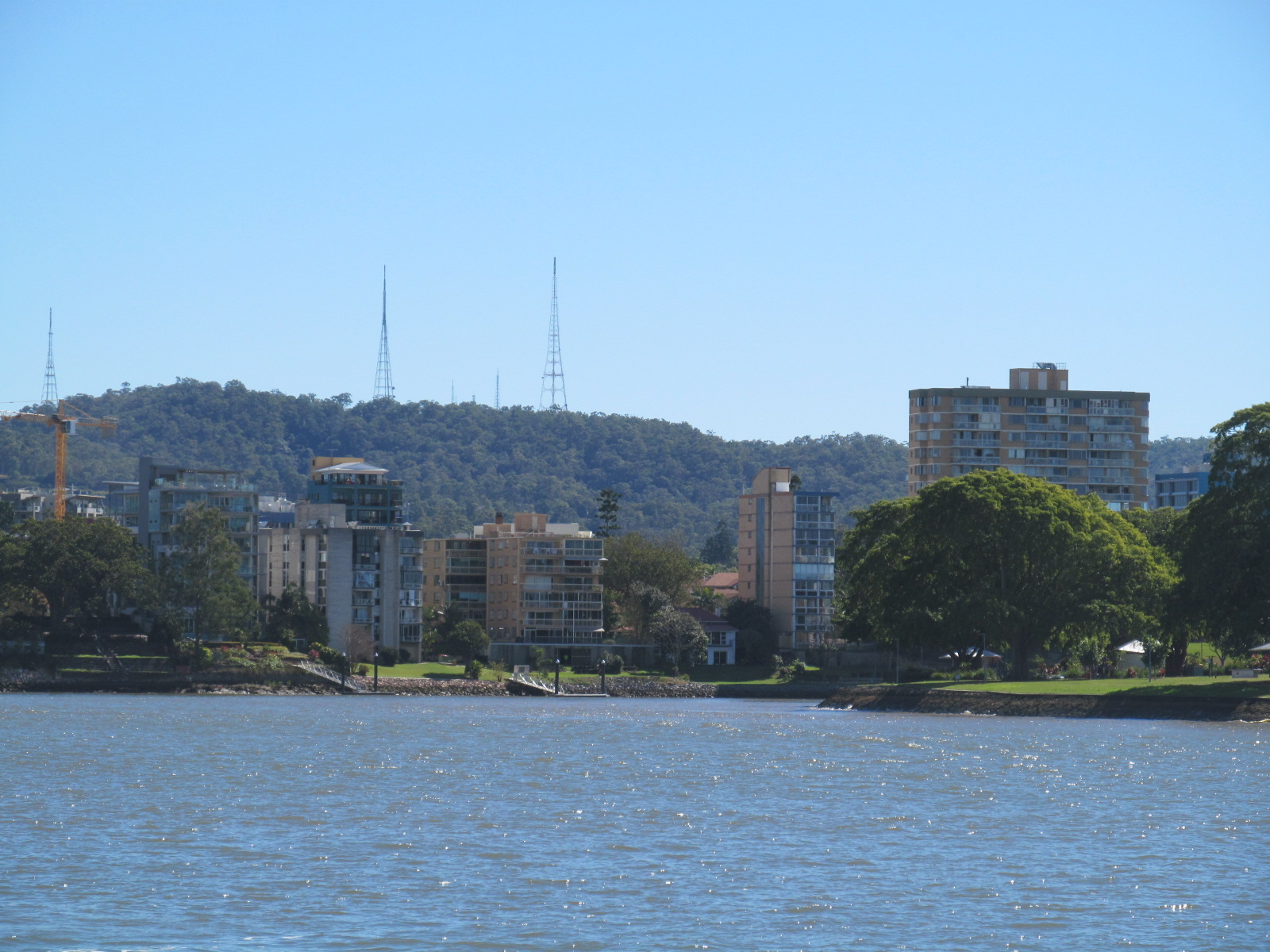 Toowong and Mount Coot-tha from the UQ ferry travelling along Milton Reach, Brisbane, Queensland.